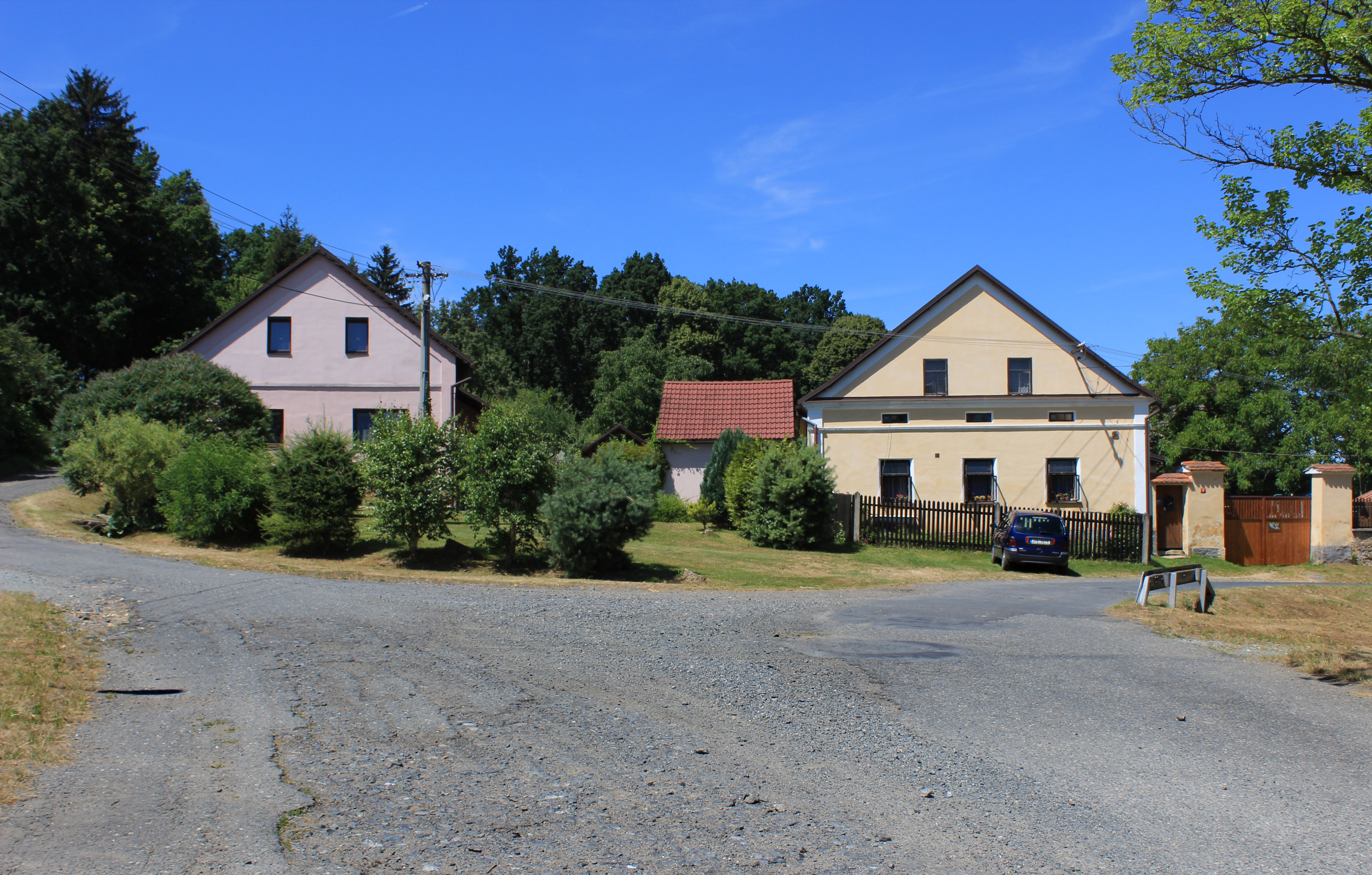 Common in Šitboř, part of Poběžovice, Czech Republic.